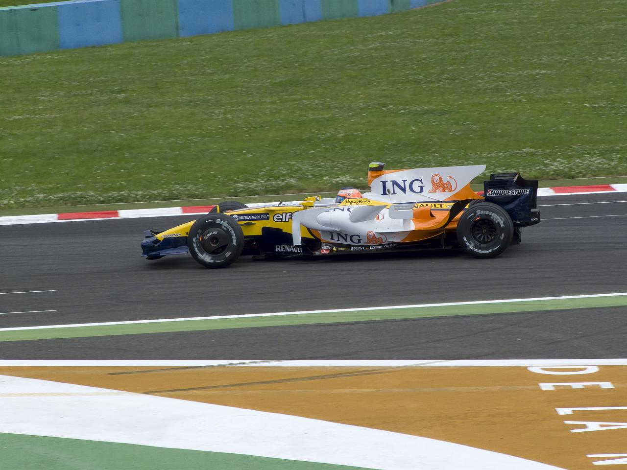 Nelson Piquet Jr. at 2008 French Grand Prix